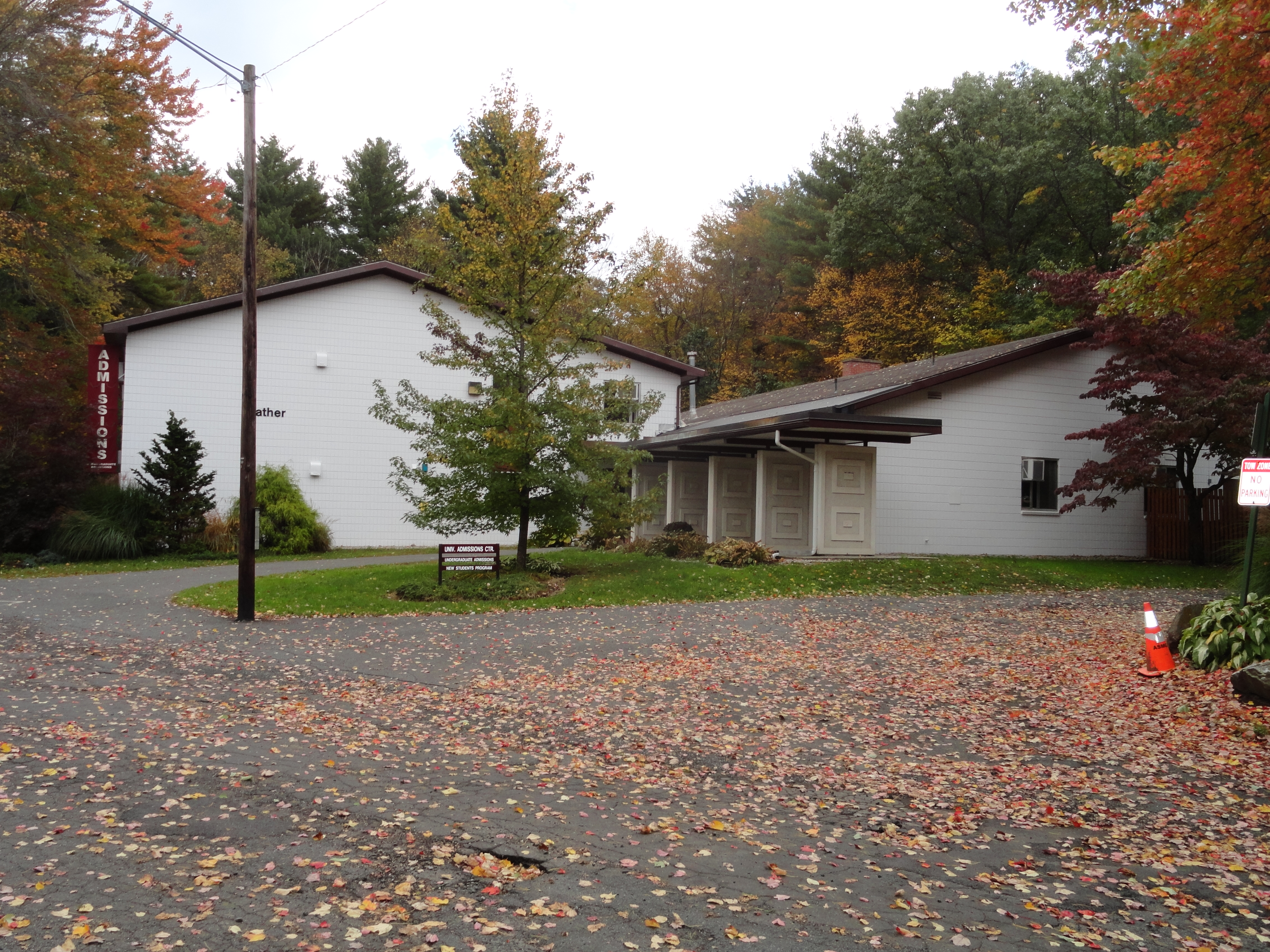 Mather House at the University of Massachusetts Amherst.